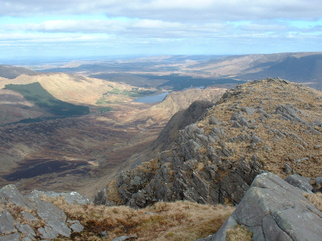 View from Ben Gorm. Taken looking northeast from the summit of Ben Gorm with its eastern flank running down towards Tawnyard Lough in the distance.